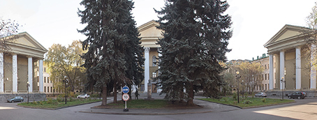 LPI main building (2015)